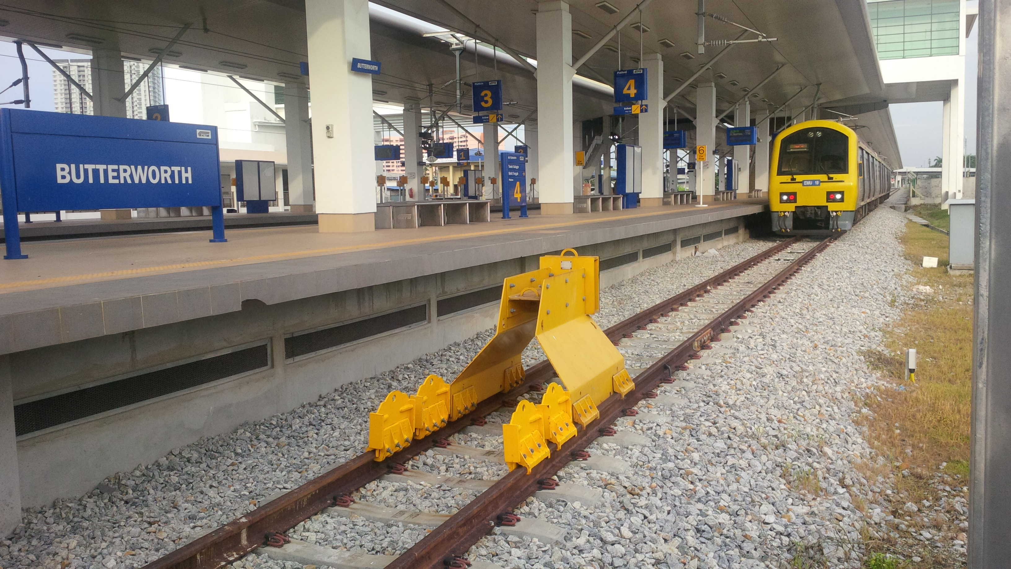 View of the platform area of Butterworth Railway Station taken from the pedestrian walkway from the ferry terminal. At the platform is a KTM Komuter EMU No 19 being used for testing for the KTM Komuter Northern Sector service.